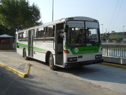 El Detalle intericity bus (#7) in Vicente López, Buenos Aires Province, Argentina. Transporte Bicentenario, Municipio de Vicente López operator.